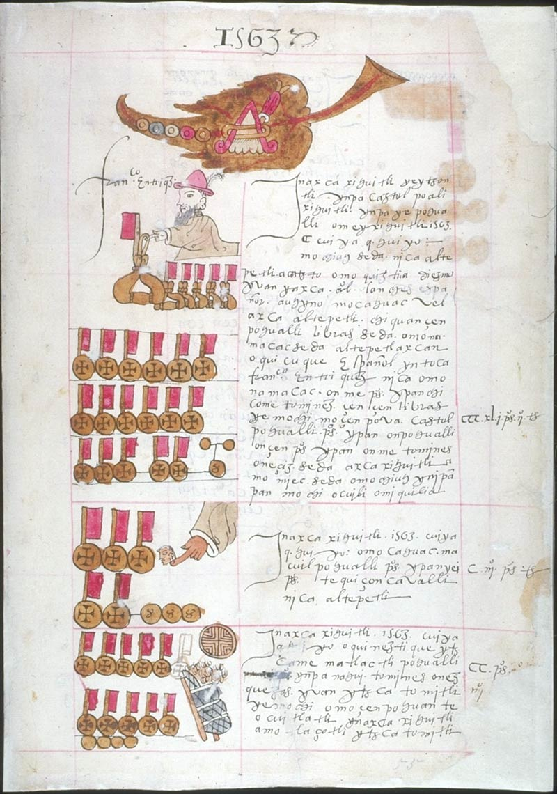 Page of the Codex Sierra, a 16th century Mixtec manuscript.